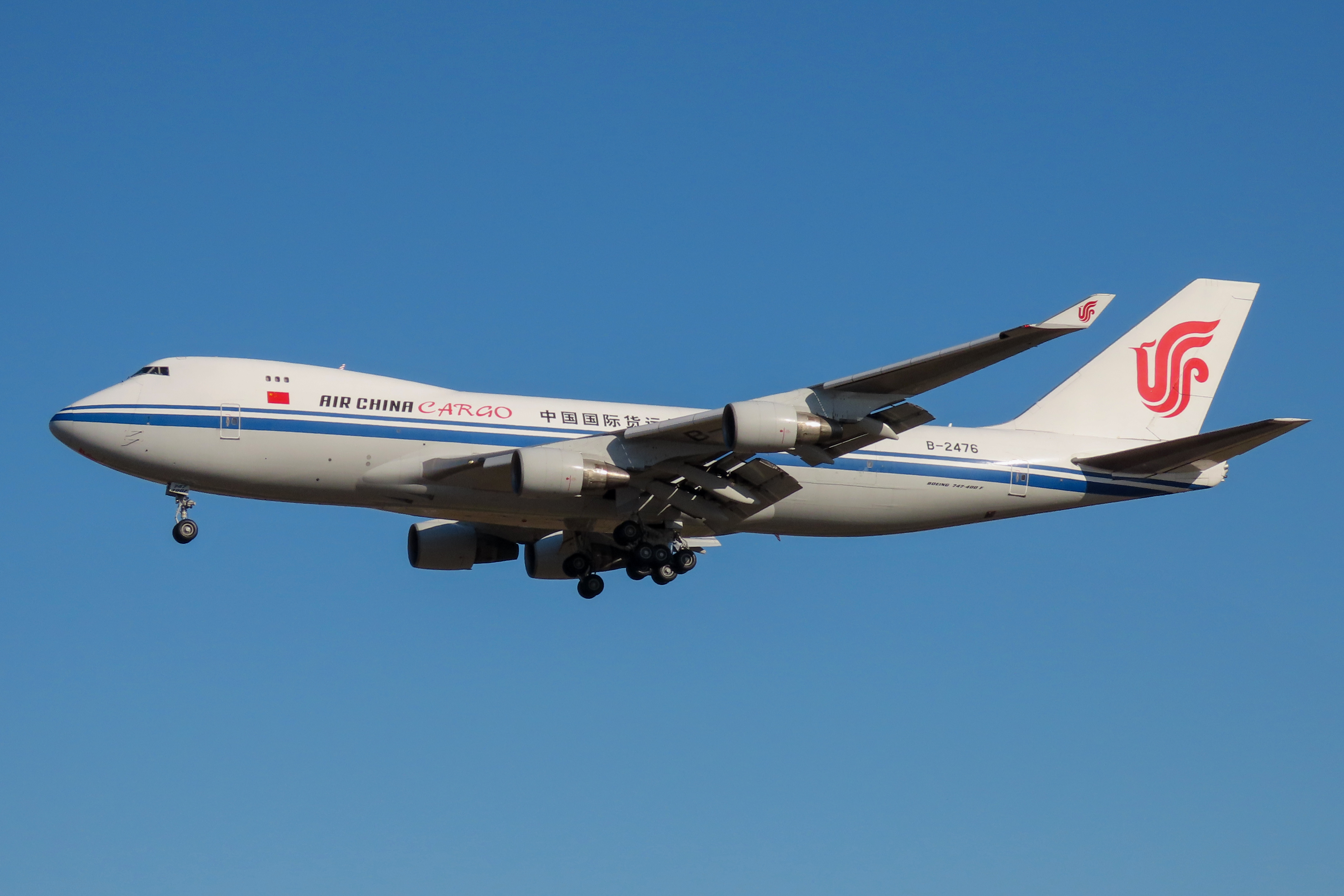 Fenghuang 1054 from Chicago, with "CARGO" in red. Its last landing at PEK before this flight was from Kathmandu.